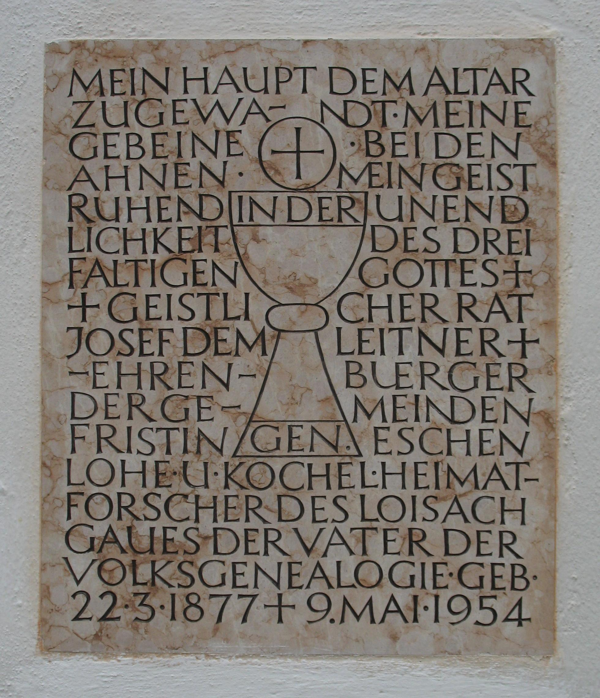 Memorial tablet for Josef Demleitner in Kochel in Bavaria, Germany